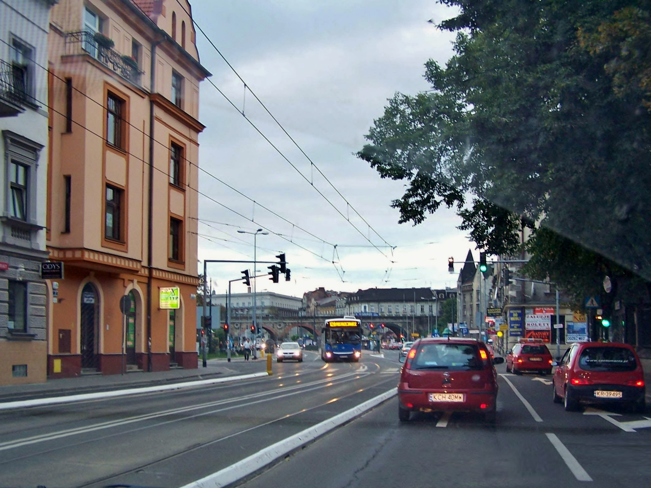 Photo by Piotrus. Grzegórzecka street. Public bus, old train bridge and buildings in the back.